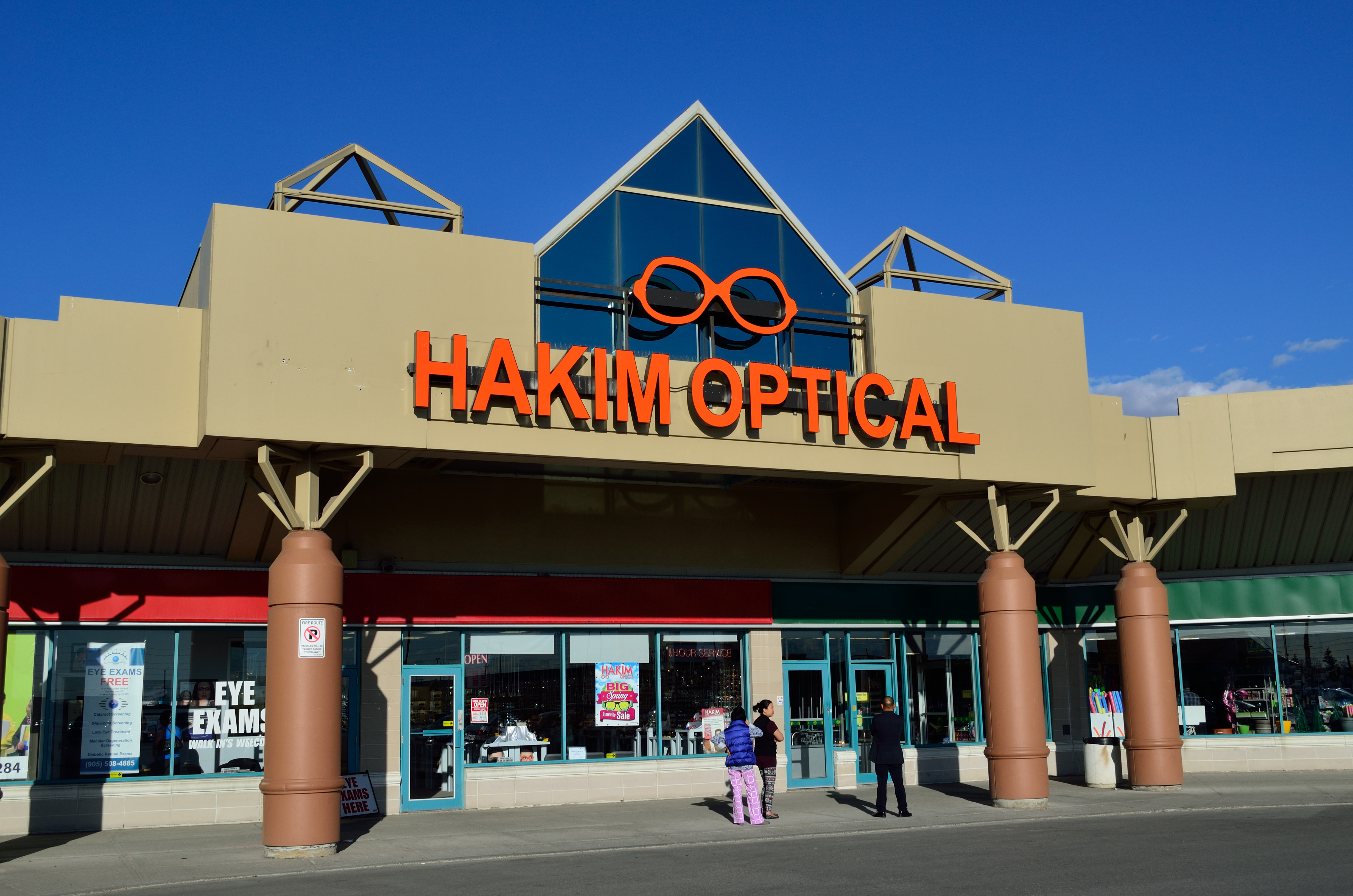 Hakim Optical - 9325 Yonge Street